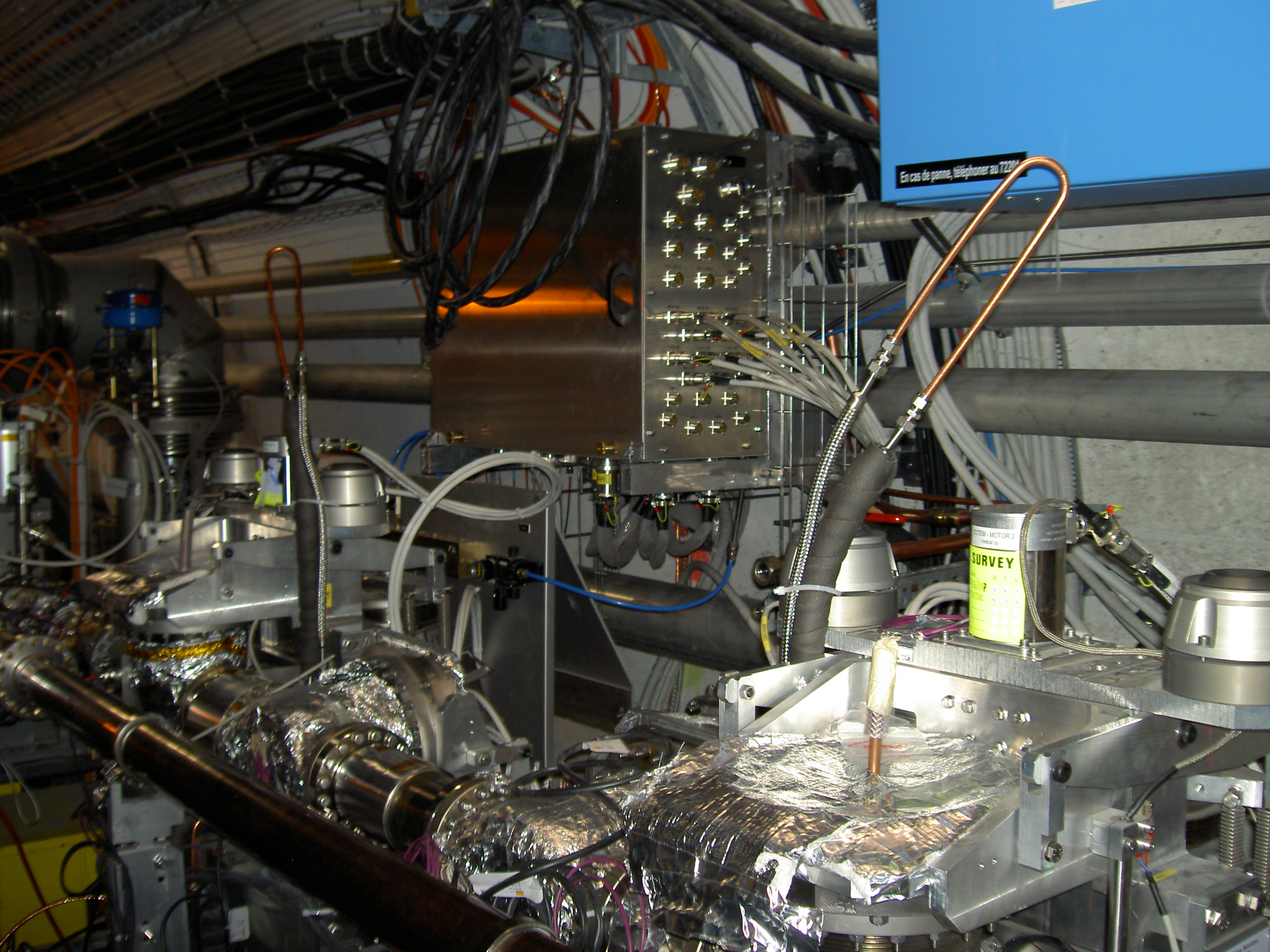 The aluminium foil covered things with a pipe sticking out is called a Roman Pot (because a group in Rome were the first ones to build such a detector) It is a movable detector that can go very close to the beam and measure protons that have lost energy by emitting a photon or a pomeron in the interaction with the beam coming in the opposite direction and did not break up in the process...The proton that has lost part of its energy then undergoes more deflection by the magnetic field in the beamline downstream of the experiment than the protons that have not lost any energy and can be detected slightly off-axis from the beam line. More information at the beginning of the set .